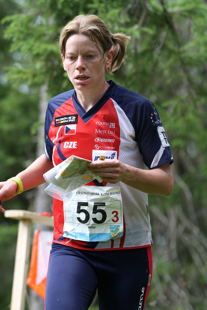 Relay at World Orienteering Championships2010